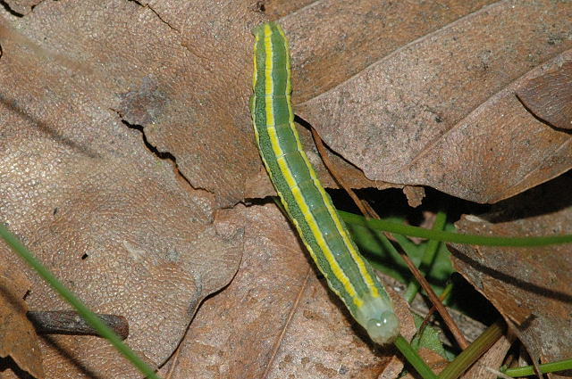 Picture taken in Commanster, Belgian High Ardennes . Species Ceramica pisi caterpillar